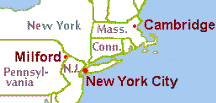 Map of some Northeastern States, showing Milford in Pennsylvania, New York City, and Cambridge